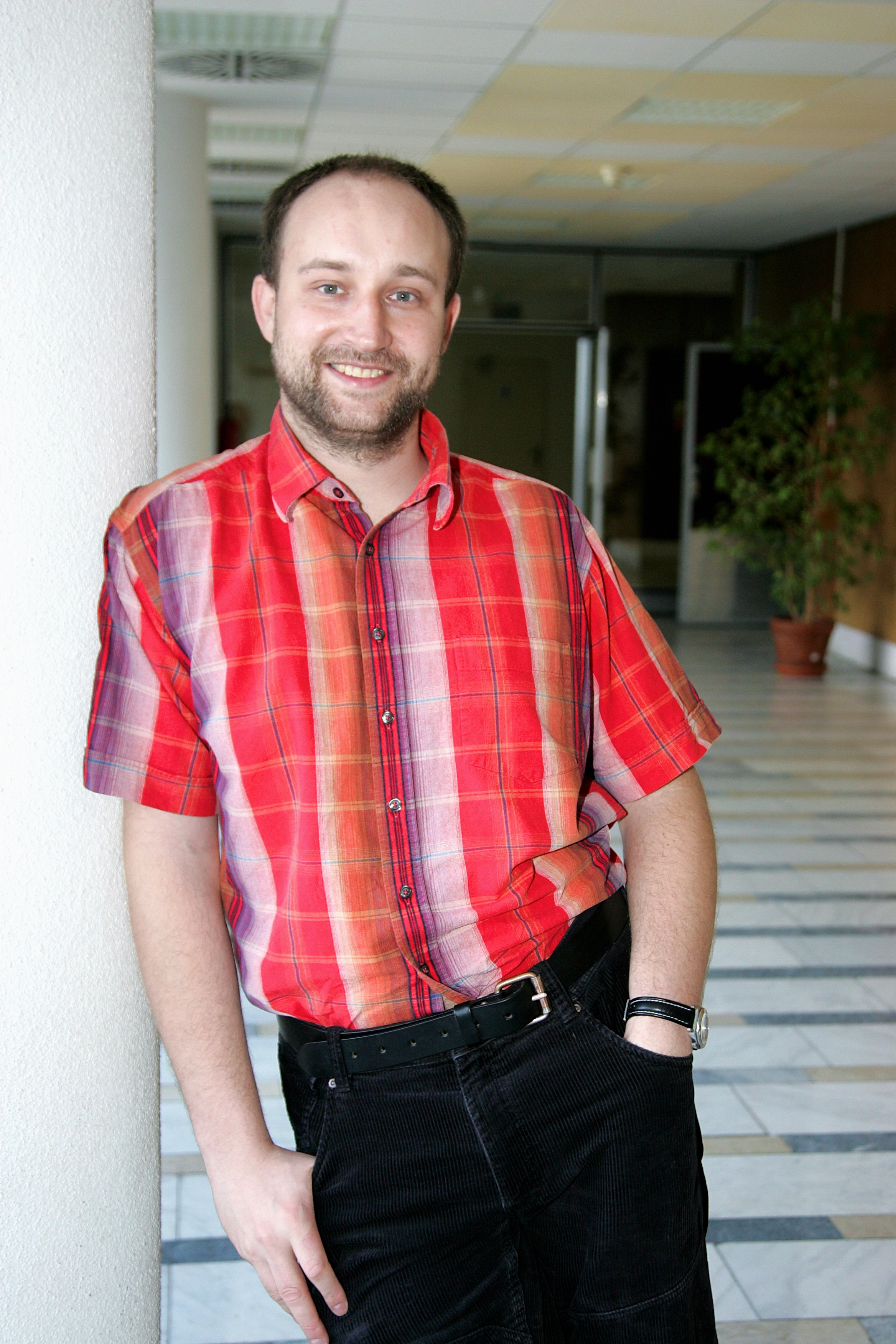 Photo of Jan Tomanek